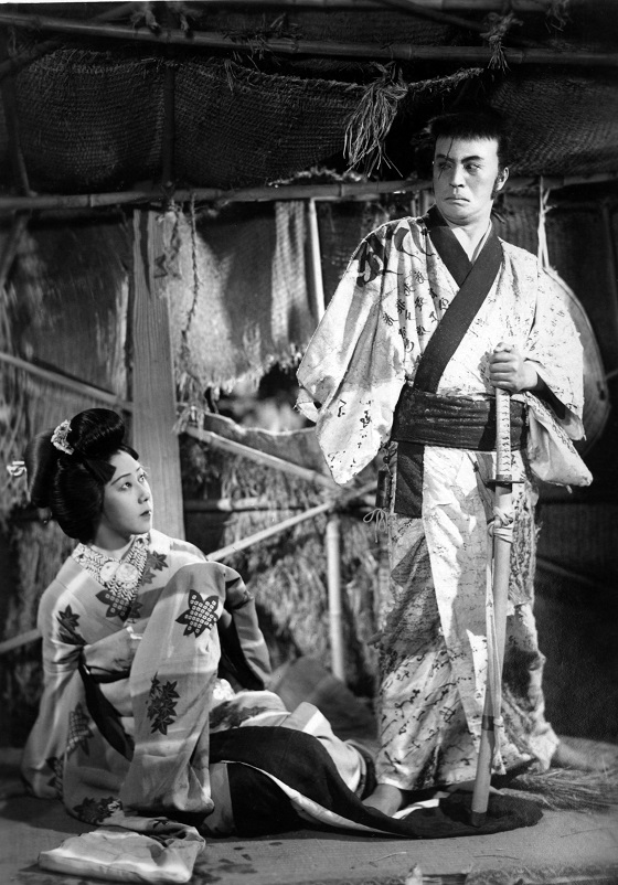 Isuzu Yamada and Denjirō Ōkōchi in Tange Sazen: Daiichihen (丹下左膳 第一篇) directed by Daisuke Itō - 1933